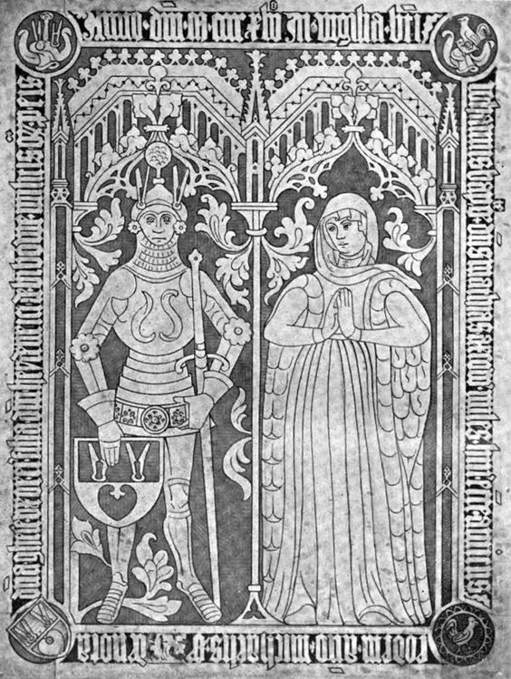 Von Bibow married to Anna Louise von Hahnsberg grave stone, 1445